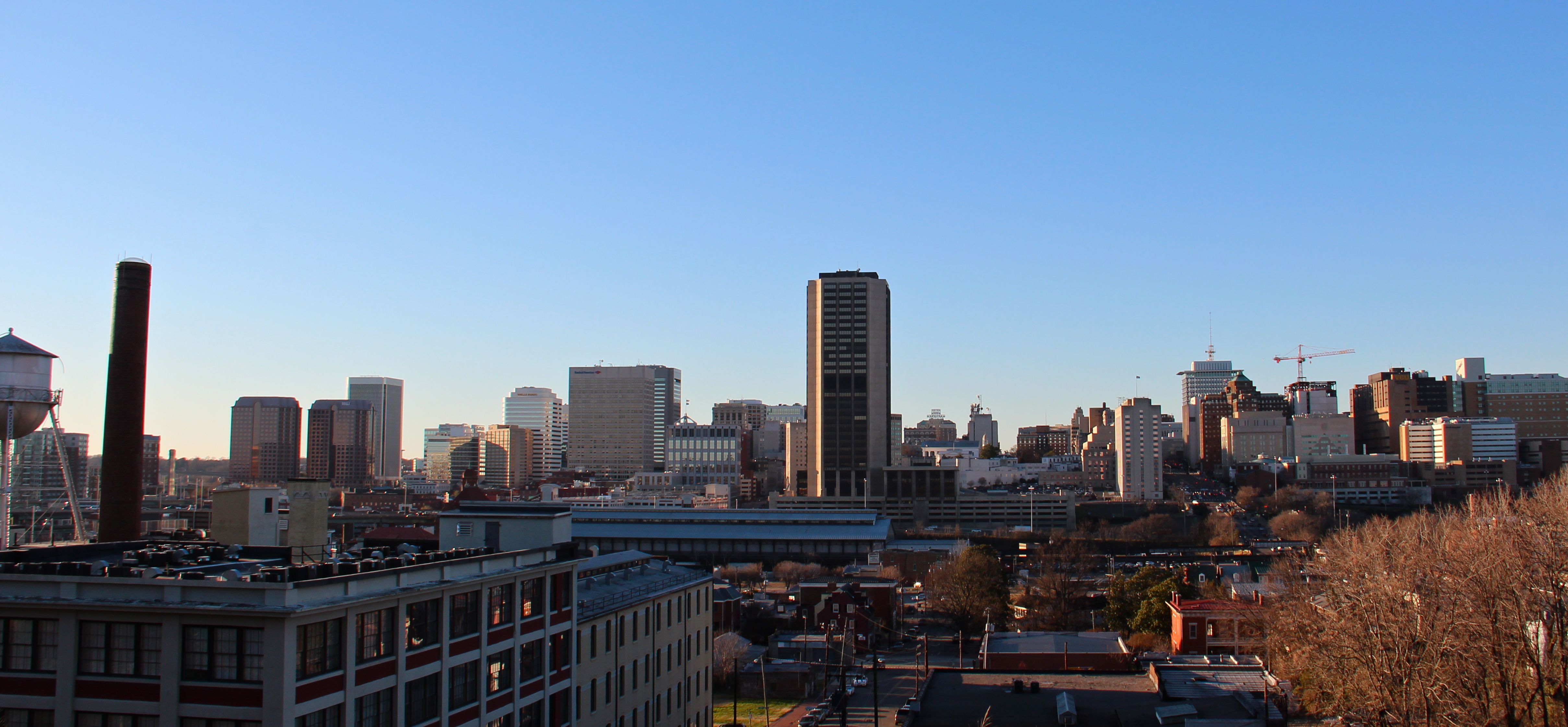 The Richmond Skyline From the East Grace Street Overlook at sunset